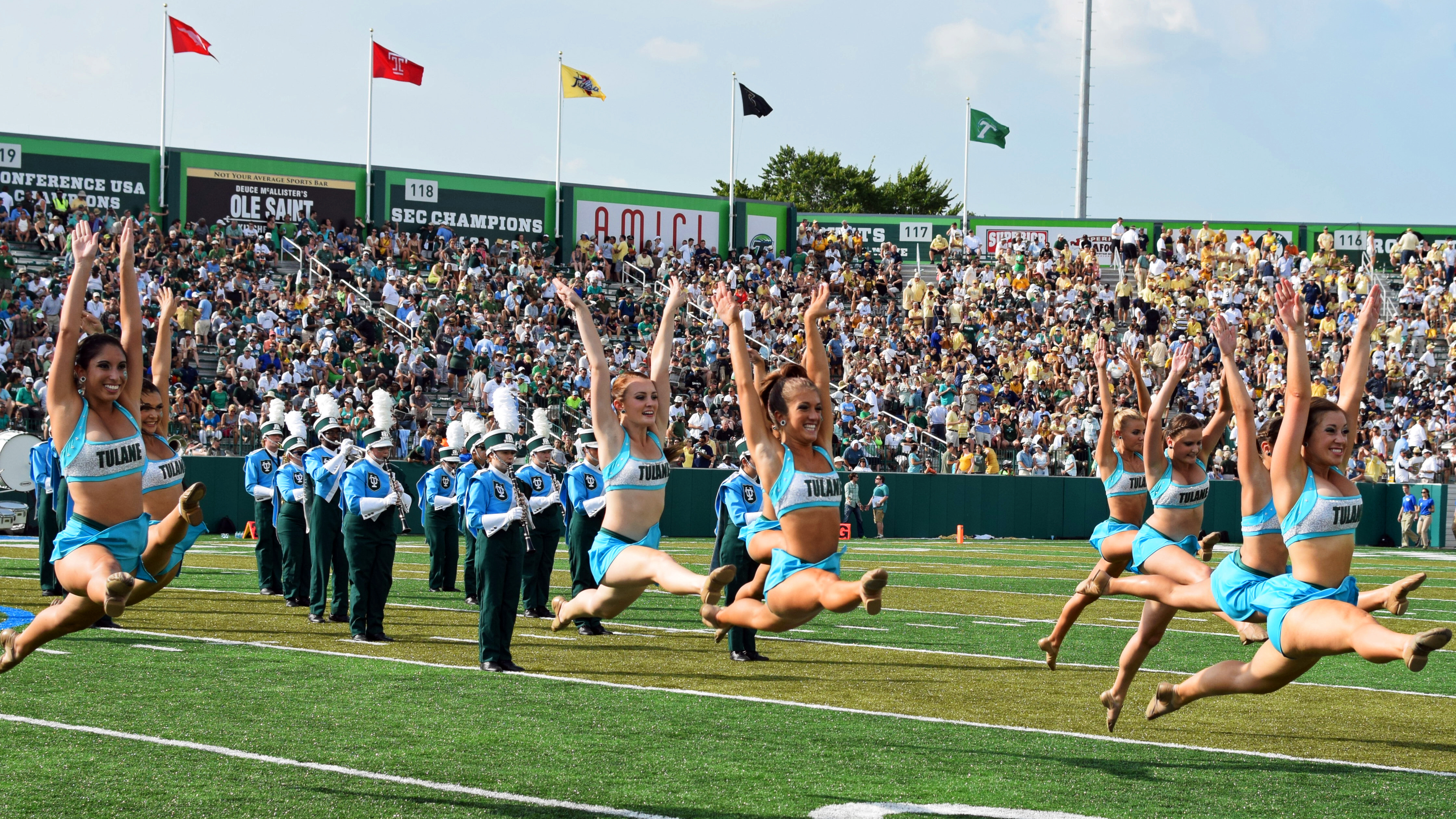 Sept. 6, 2014 - Opening day for the new Yulman Stadium on the campus of Tulane University. This is from the halftime show.